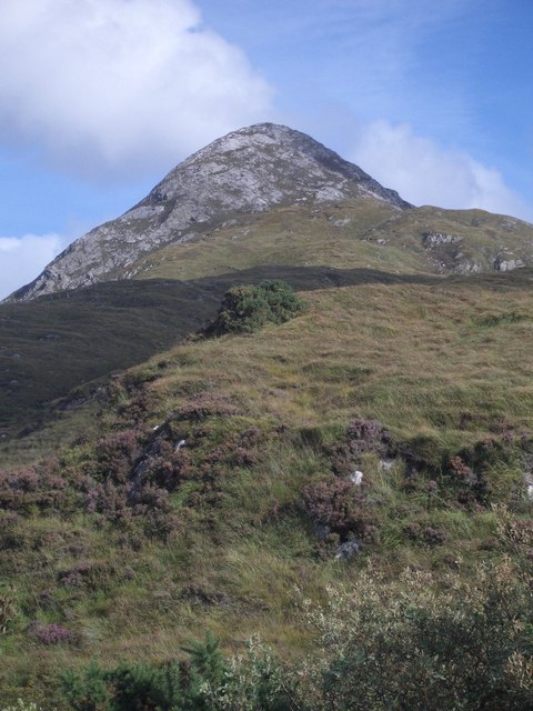 Connemara: Diamond Hill (Bengooria) from the west